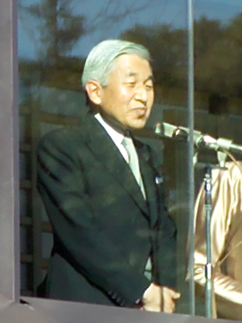 Emperor Akihito at his 72nd birthday, December 23, 2005. Kokyo Kyuden (Tokyo, Japan).